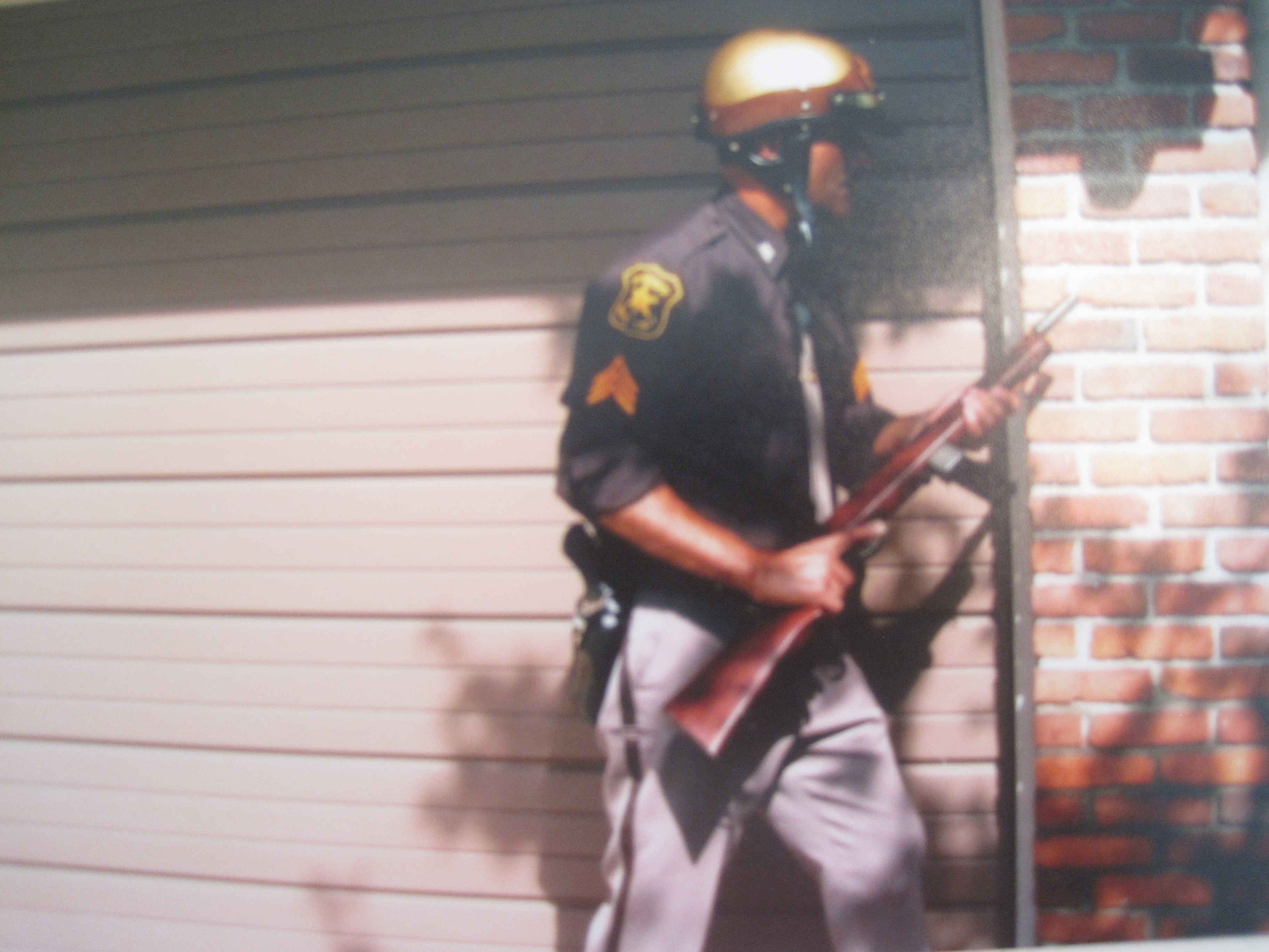 Wayne County Sheriff's Deputy with Reising submachine gun